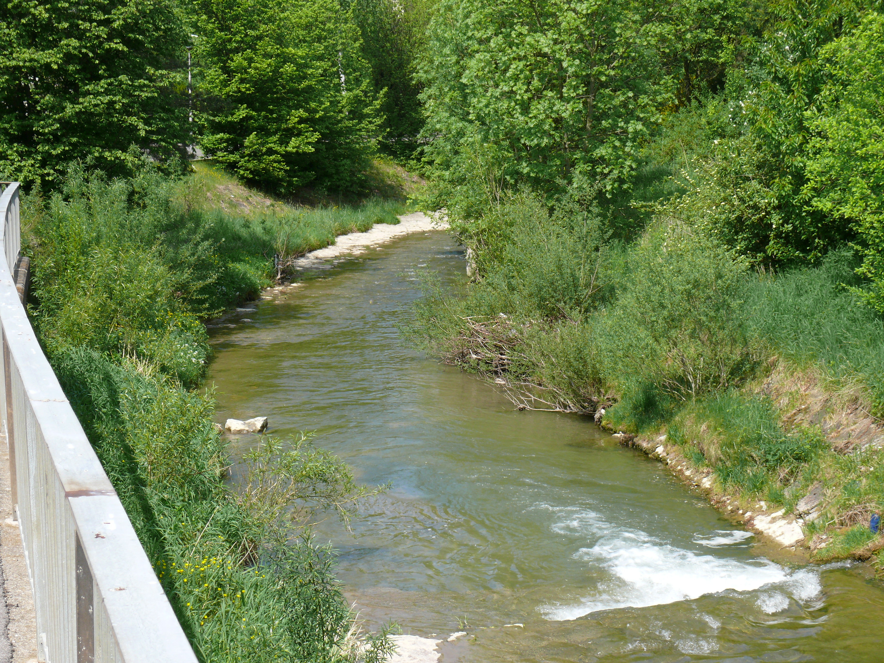 River Steinlach in Ofterdingen